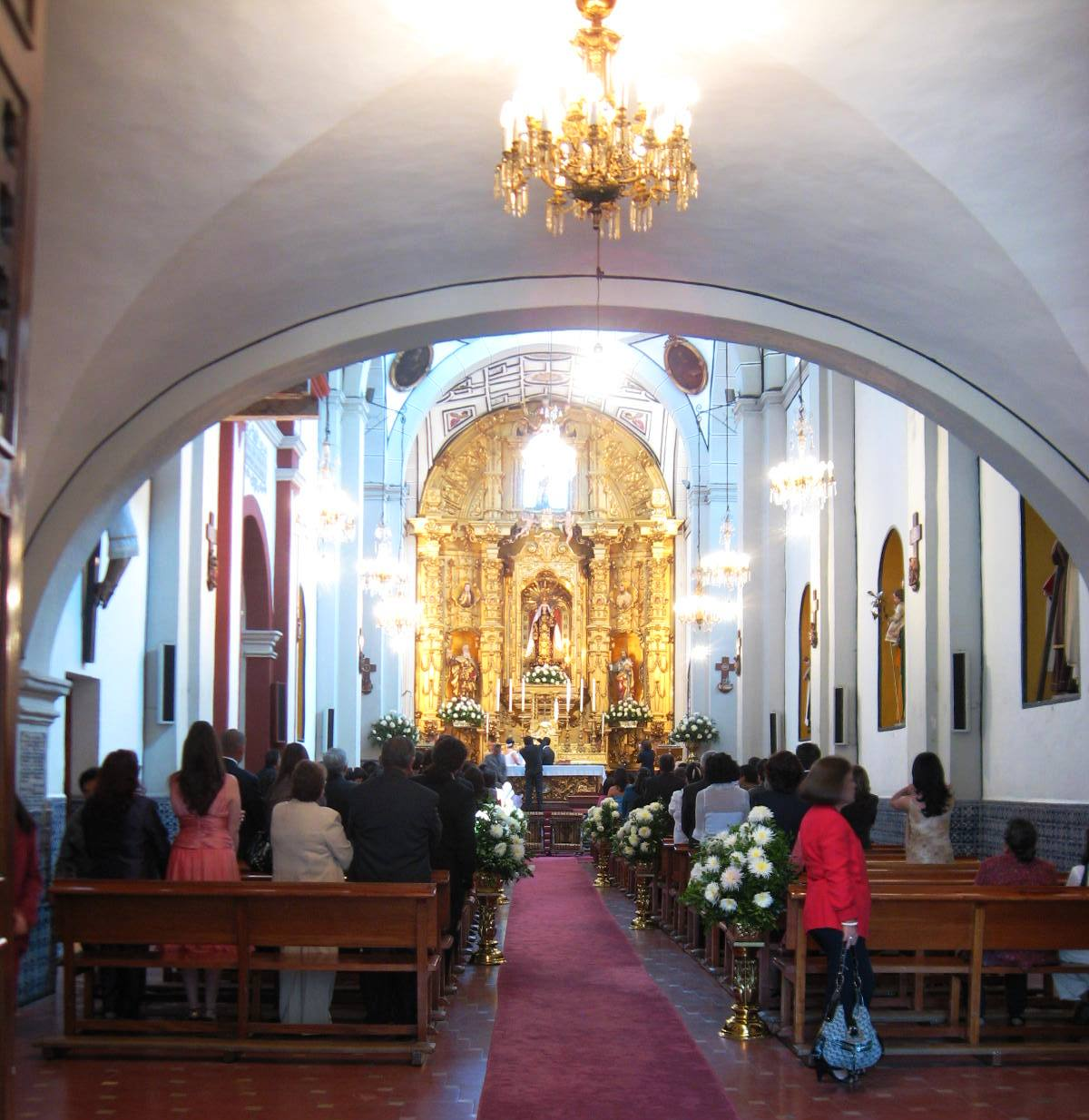 Inside the chapel of the ex convent of El Carmen in the San Angel colonia of Mexico City. A wedding is in progress.